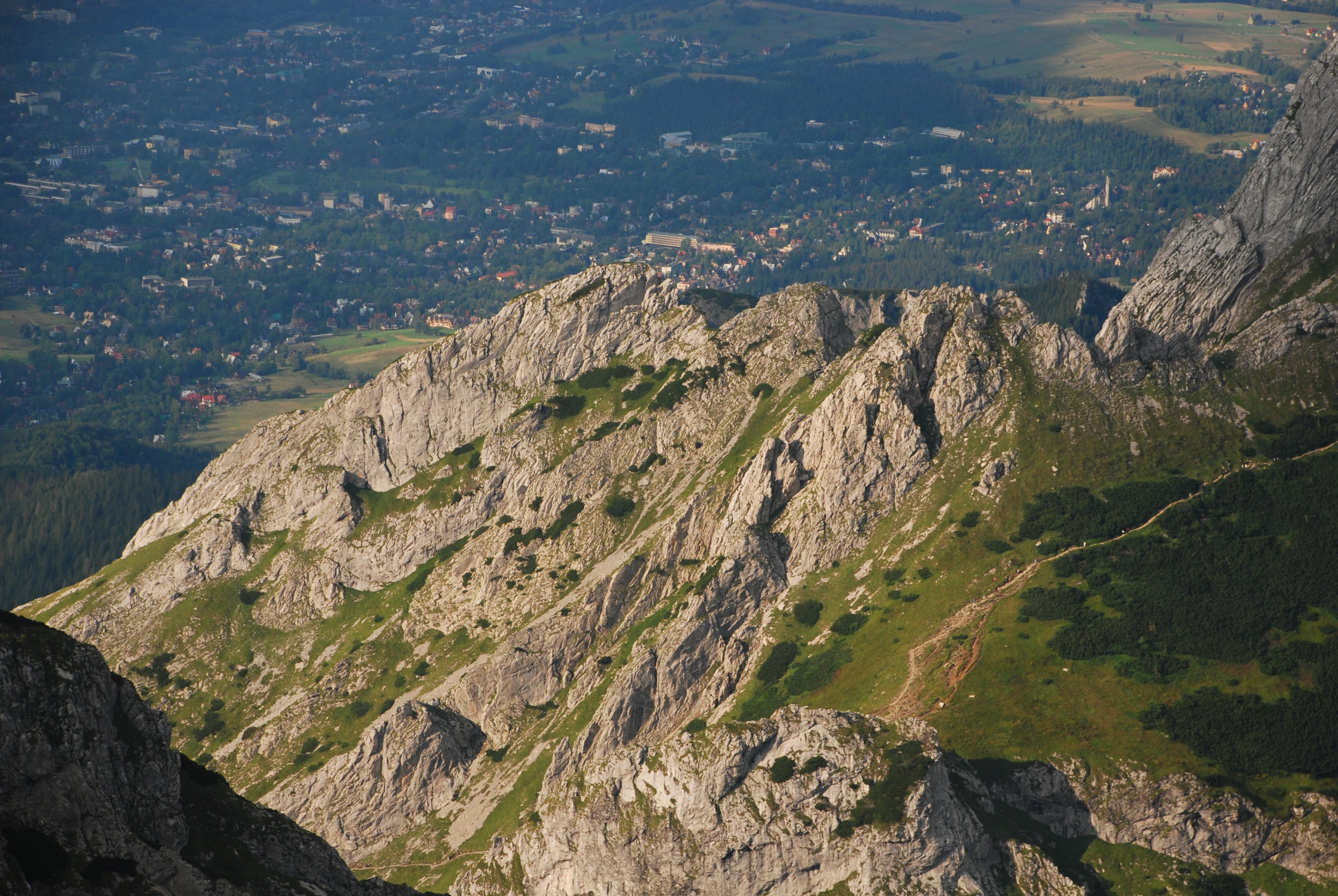 Mały Giewont